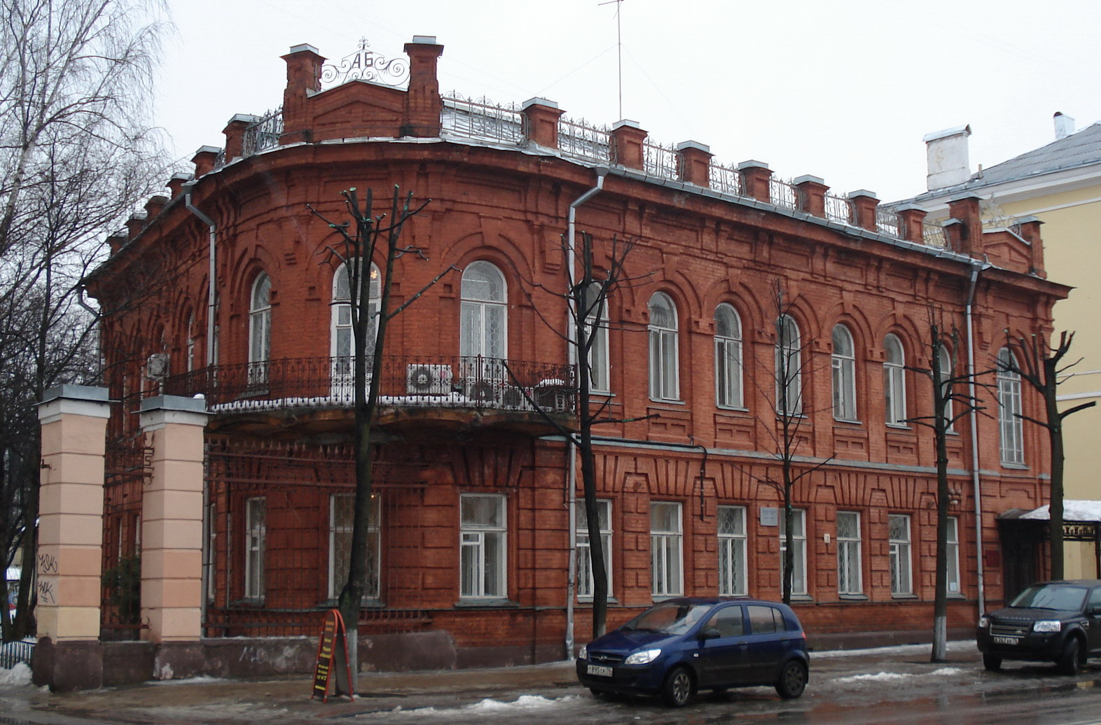 Bukharin House in Yaroslavl